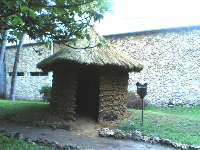 A replica of a Bukusu hut at the Sarova White Sands Hotel in Mombasa, Kenya.